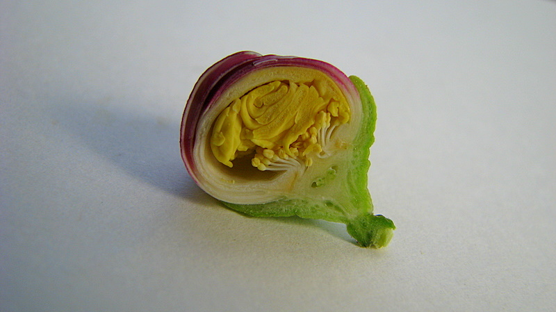 Lecythis ibiriba (Miers) N. P. Sm., S. A. Mori & Popovkin